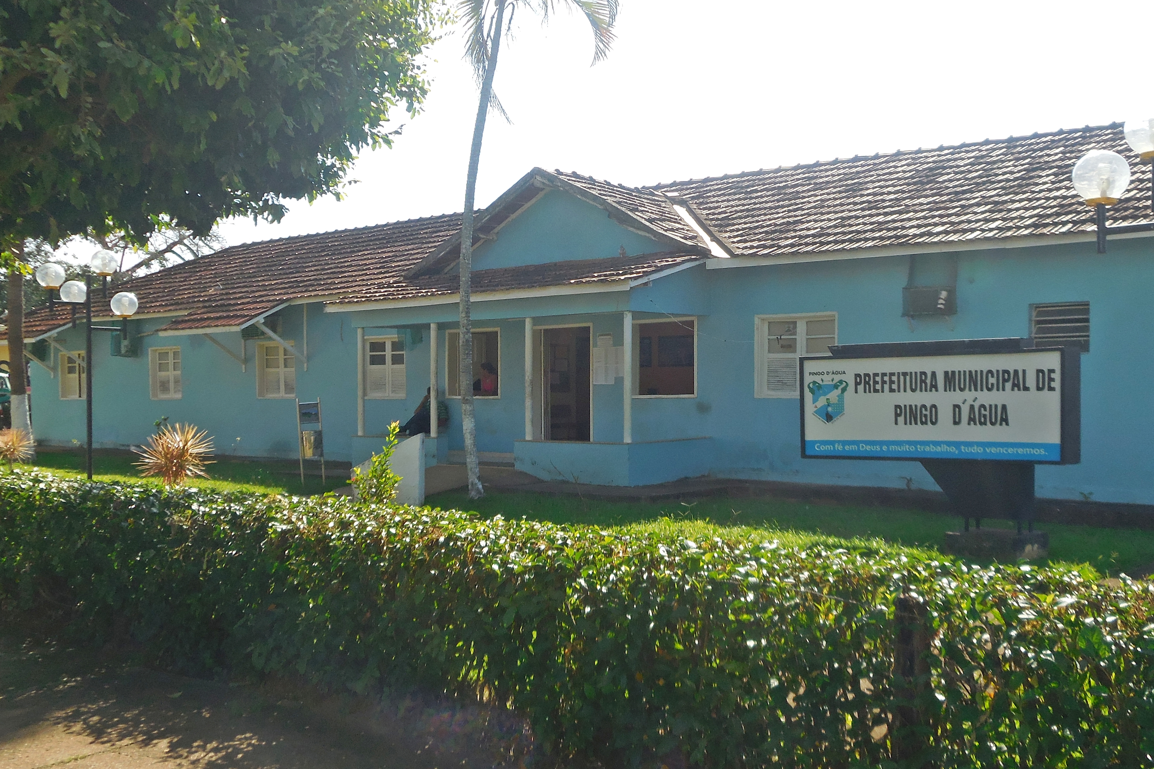 Town hall of Pingo-d'Água, Minas Gerais, Brazil.